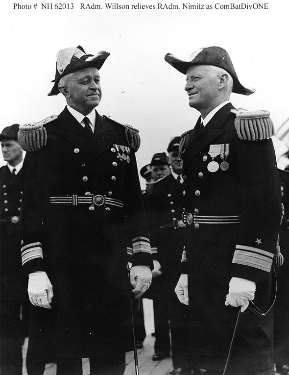 Photo #: NH 62013 Rear Admiral Russell Willson, USN, (left) and Rear Admiral Chester W. Nimitz, USN On board during ceremonies in which Willson relieved Nimitz as Commander Battleship Division ONE, off San Pedro, California, en:26 May en:1939. Collection of Fleet Admiral Chester W. Nimitz, USN. U.S. Naval Historical Center Photograph.